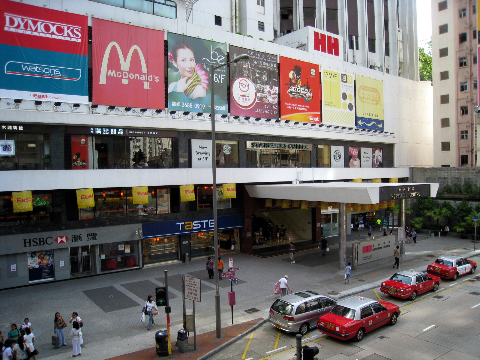 Hopewell Centre Upper 合和中心